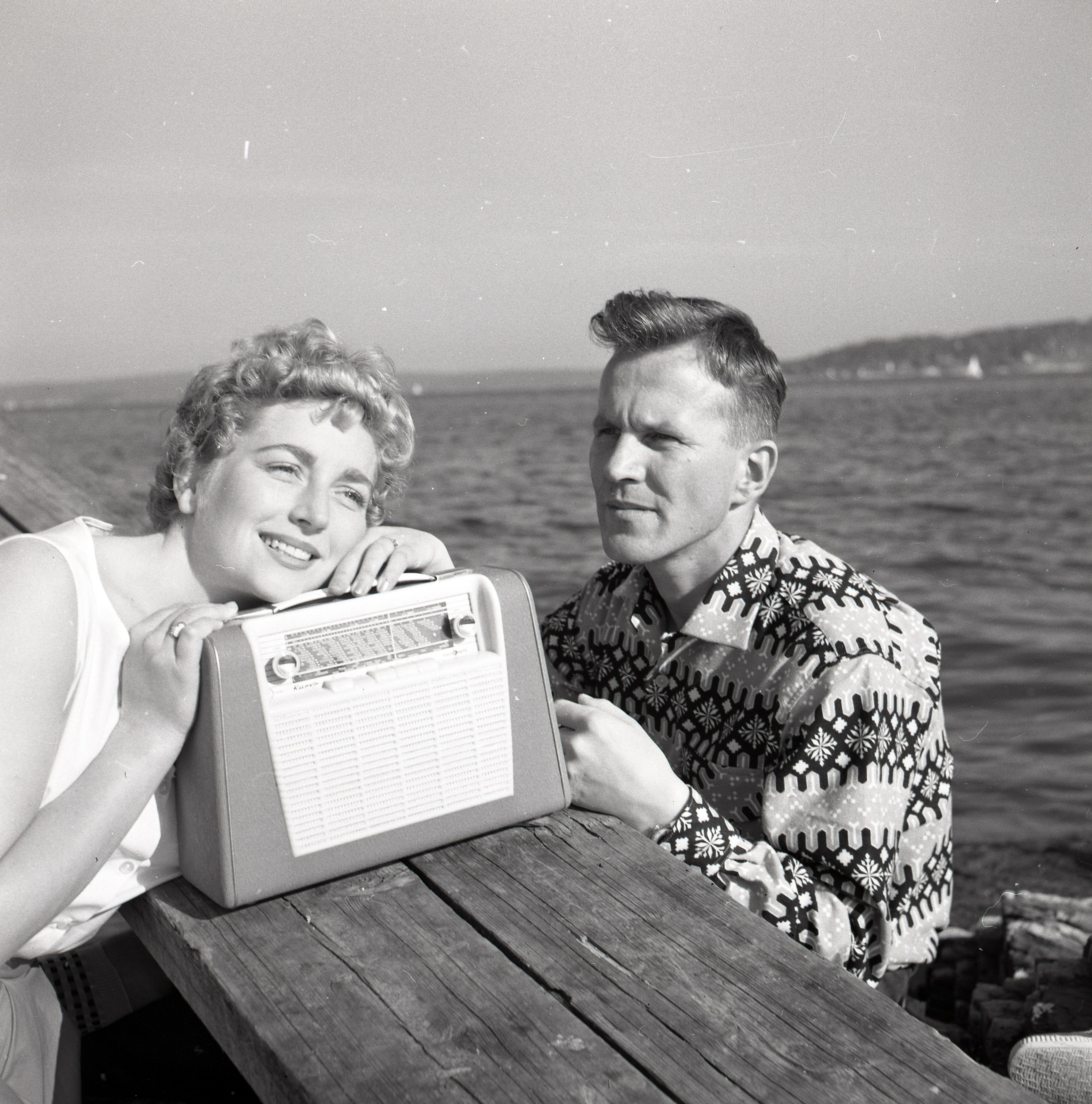 The Radionette Kurer Transi radio, shown here, was produced in Norway since 1961